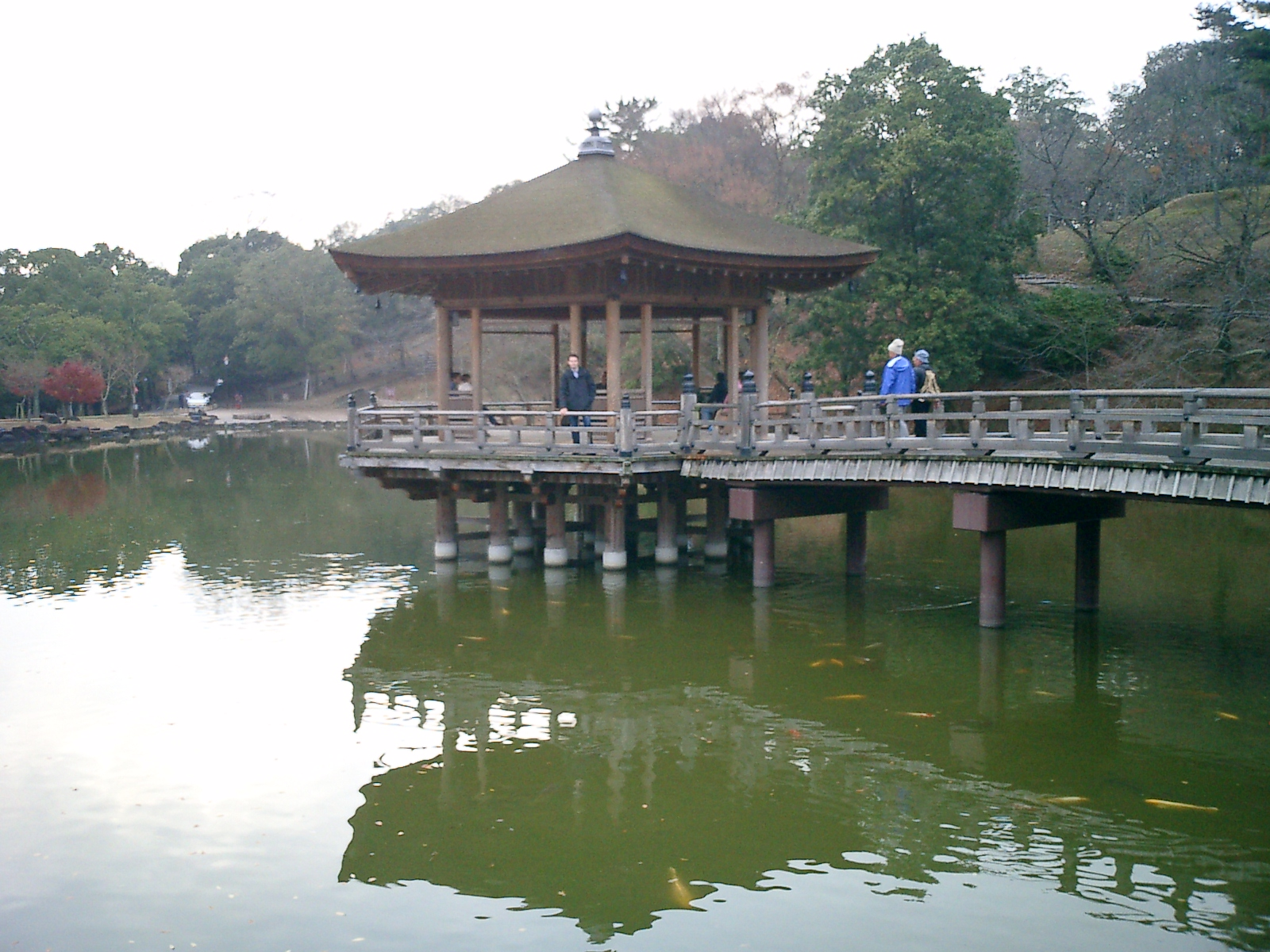 Nara, Japan